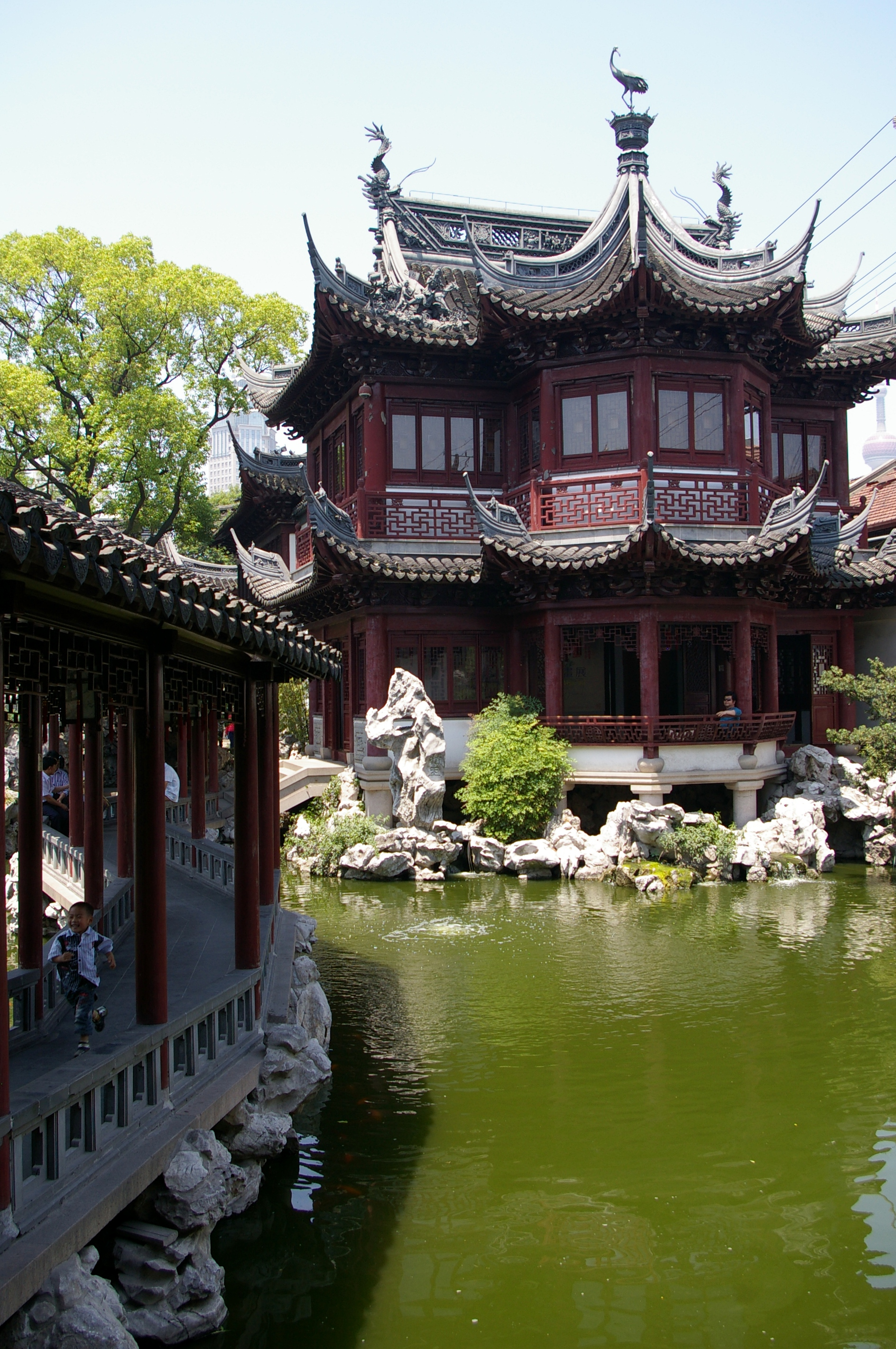 Jade Rock and Tingtao Tower at Yu garden in Shanghai